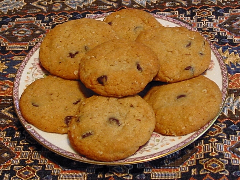 Ginny's Toll House Cookies - Chocolate chip cookies with oatmeal. Falmouth, Maine, USA